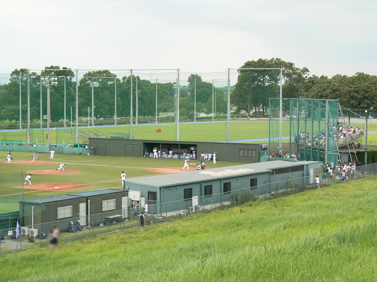 Tokyo Yakult Swallows Toda Stadium in Toda City, Saitama Prefecture, Japan